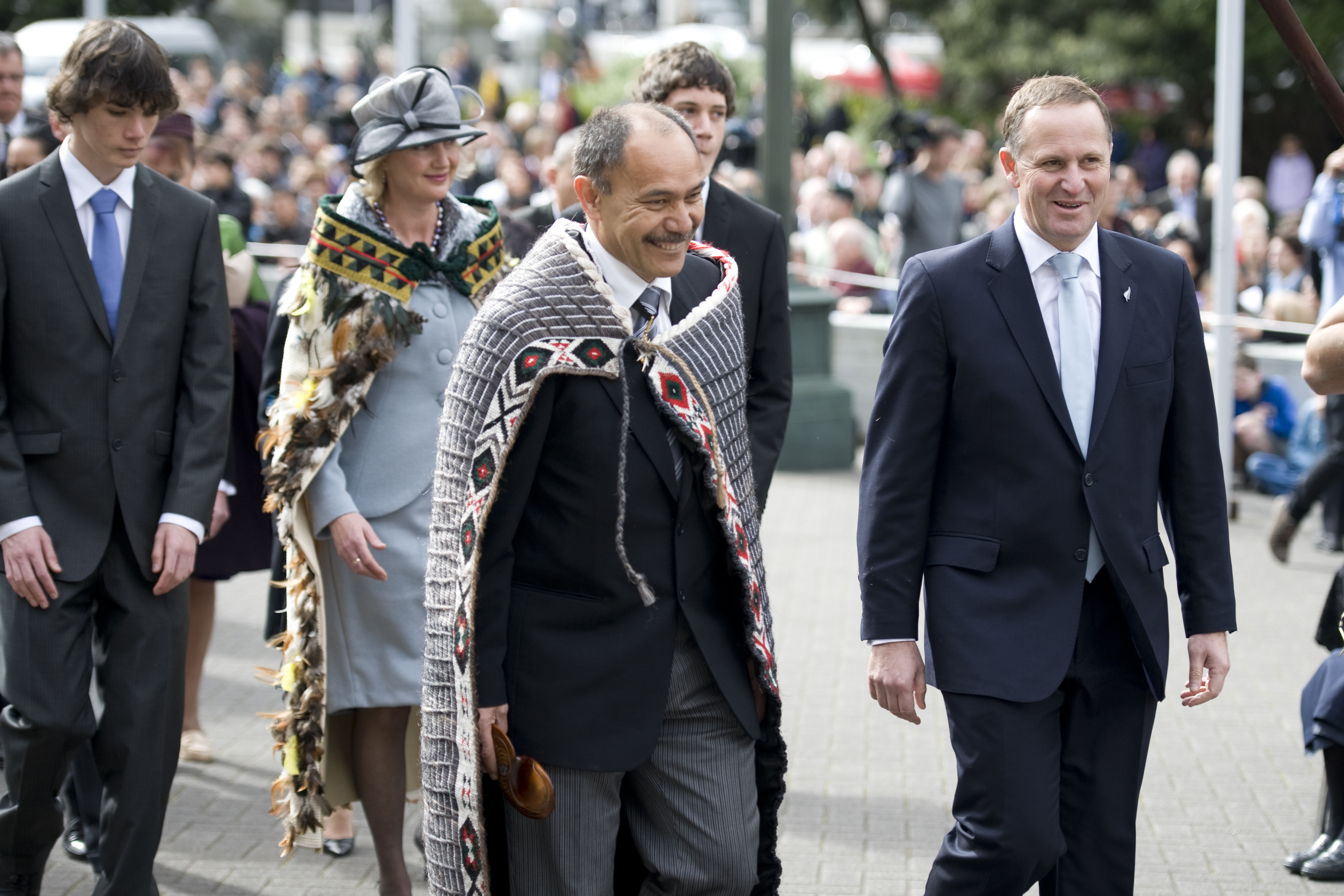 Swearing in ceremony of LTGEN Sir Jerry Mateparae as Governor-General at Parliament. The Defence Force provided a 100 man Royal Guard of Honour for the occasion. Sir Jerry arrives at Parliament to be met by the Prime Minister, Rt Hon John Key